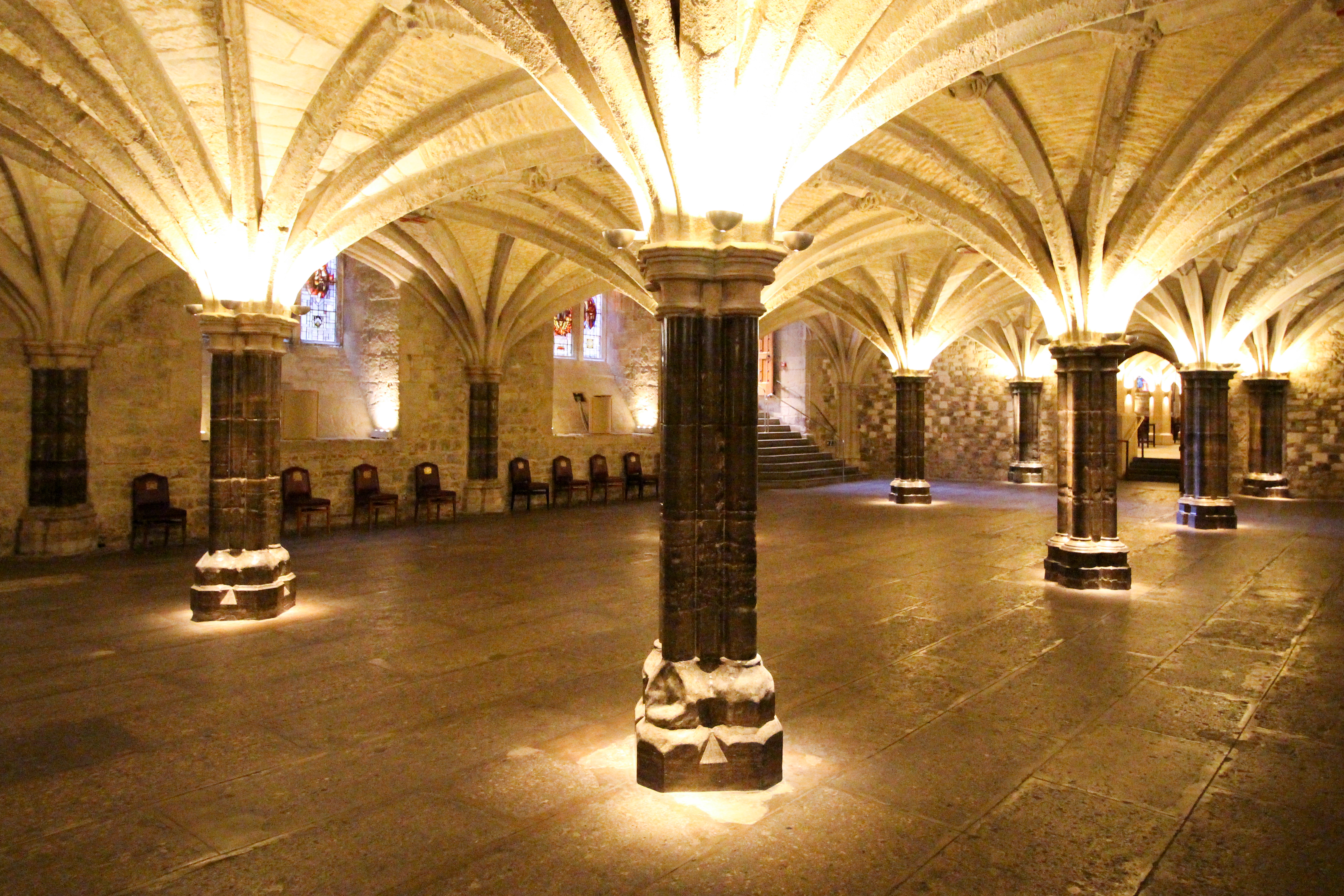 Guildhall|, City of London. Open House Weekend 2015.